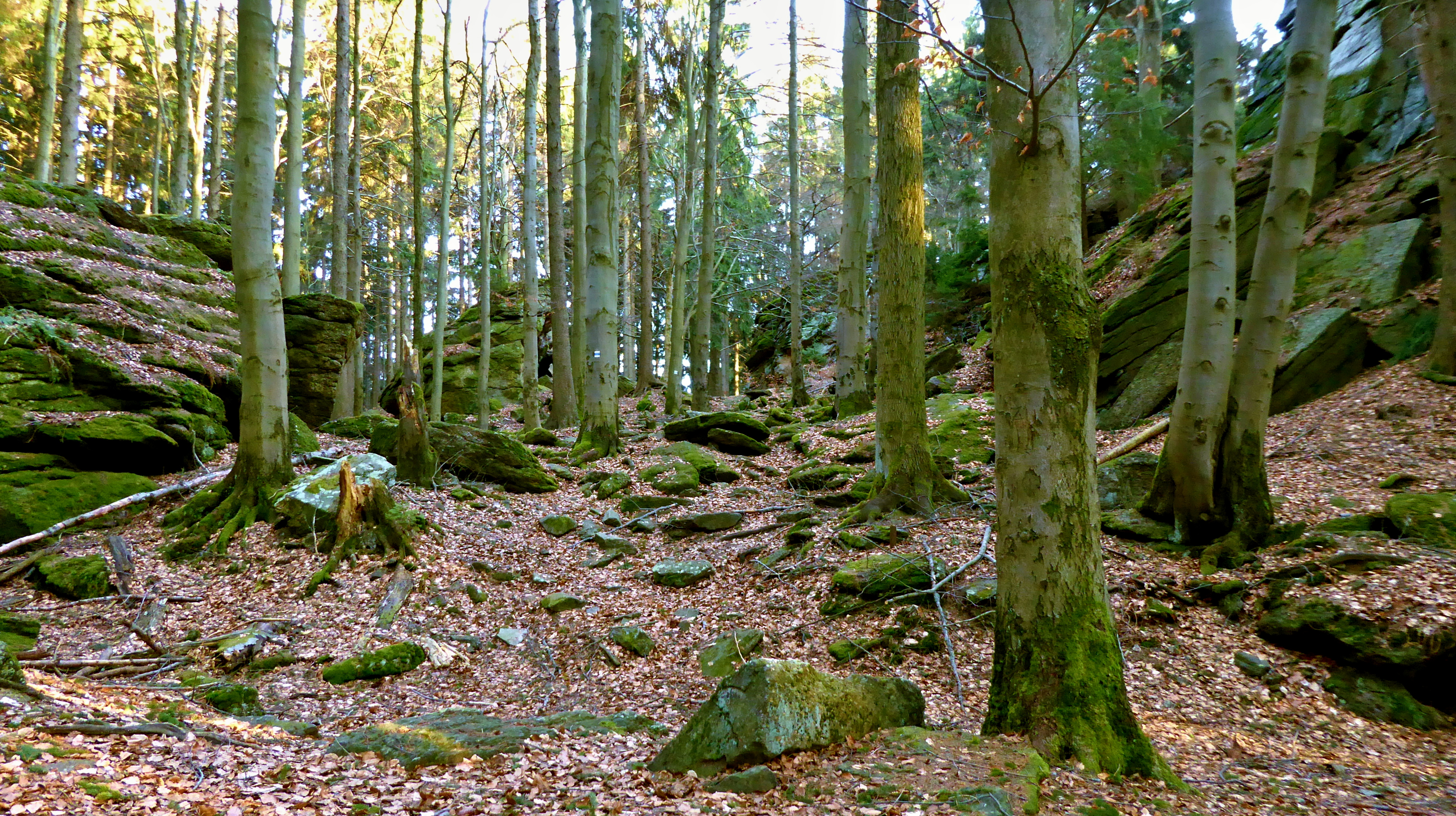 Rock group called Petrified Chateau, natural monument of Žďár Hills. The tourist trail of the Czech Tourists Club passes between the rocks (blue marking). View to the top of the short ridge (approx. 752 m above sea level). The highest rock called Chateau Tower (765 m above sea level) right outside the photo. Photo-location: Czechia, Vysočina Region, the town of Svratka, a group of rocks called Petrified Chateau (azimuth 150°).